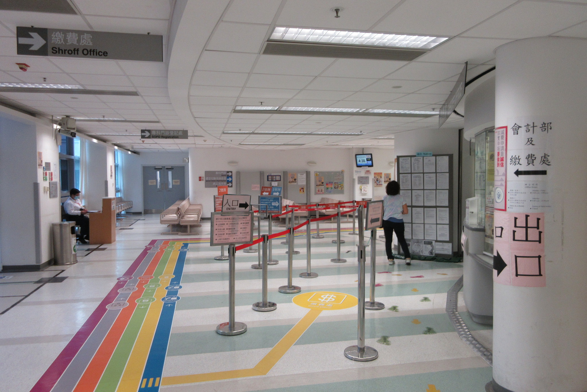 HK 元朗 Yuen Long 博愛醫院 Pok Oi Hospital interior in April 2017